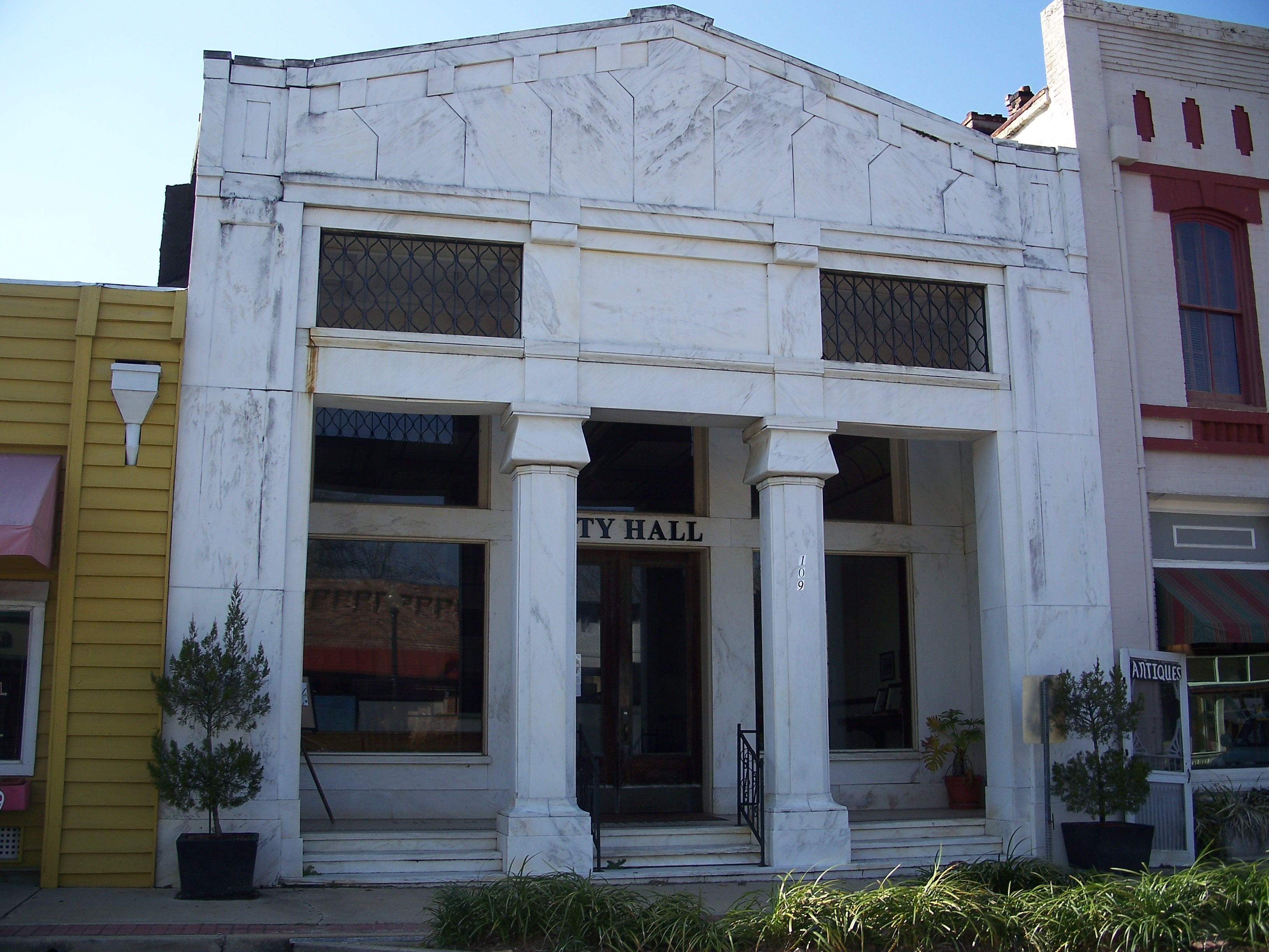 109 S Main St, Boston, Georgia: Boston Historic District: City hall.